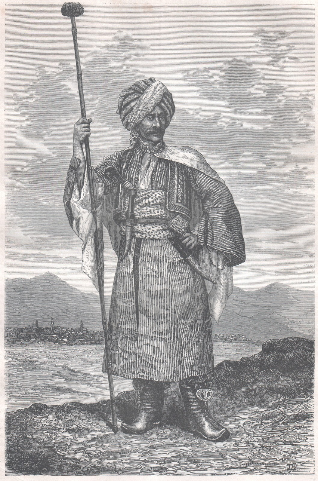 Capo Kurdo - Kurdish Prince (From the Italian book 1876, Giro Mondo) کوردی: وێنەی میرێکی کوردی لە کتێبی مێژووی ئیتاڵی لە ساڵی ١٨٧٦ لەلایەن گیرۆ مۆندۆ.